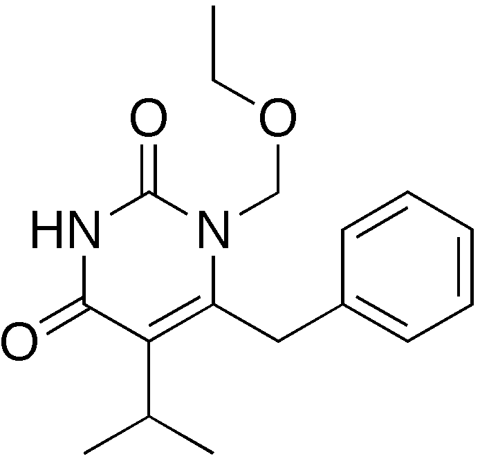 chemical structure of emivirine